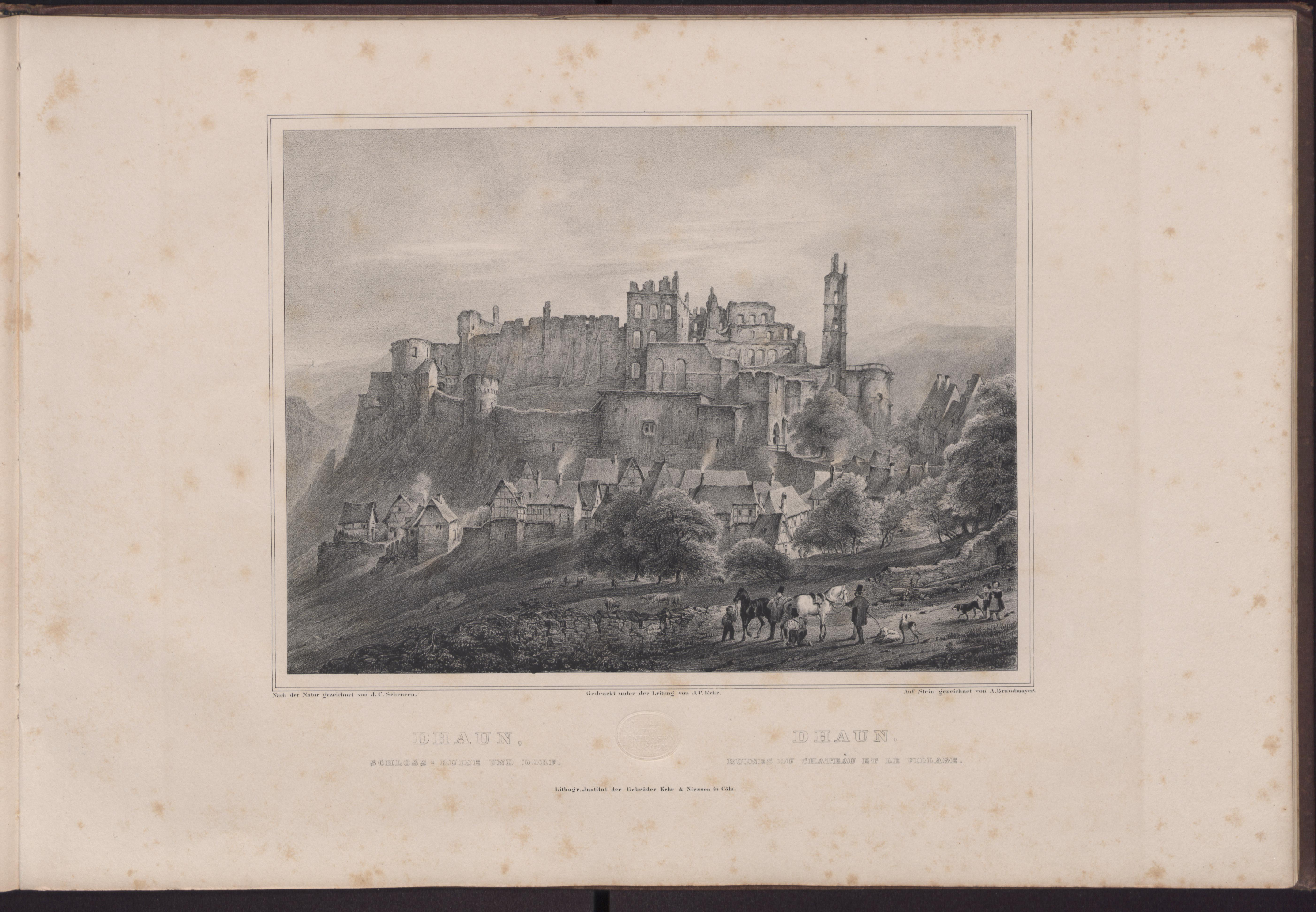 Dhaun, Castle-Ruins and Village.